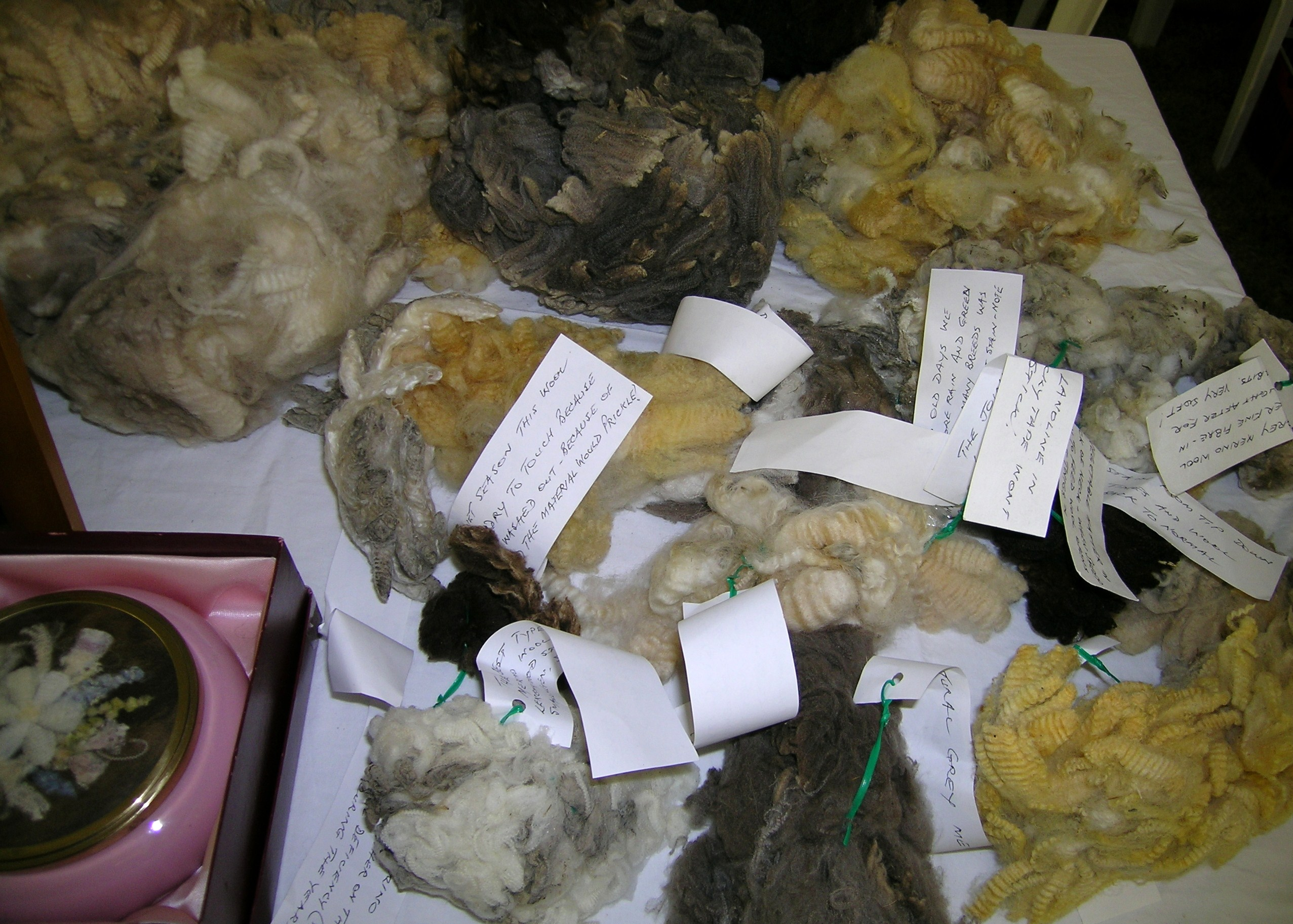 Various types and colours of wool, and a picture made from wool in the lower left, Wool Expo, Armidale, NSW